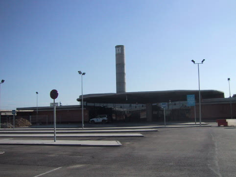 Guadalajara-Yebes railway station (Castile-La Mancha, Spain).